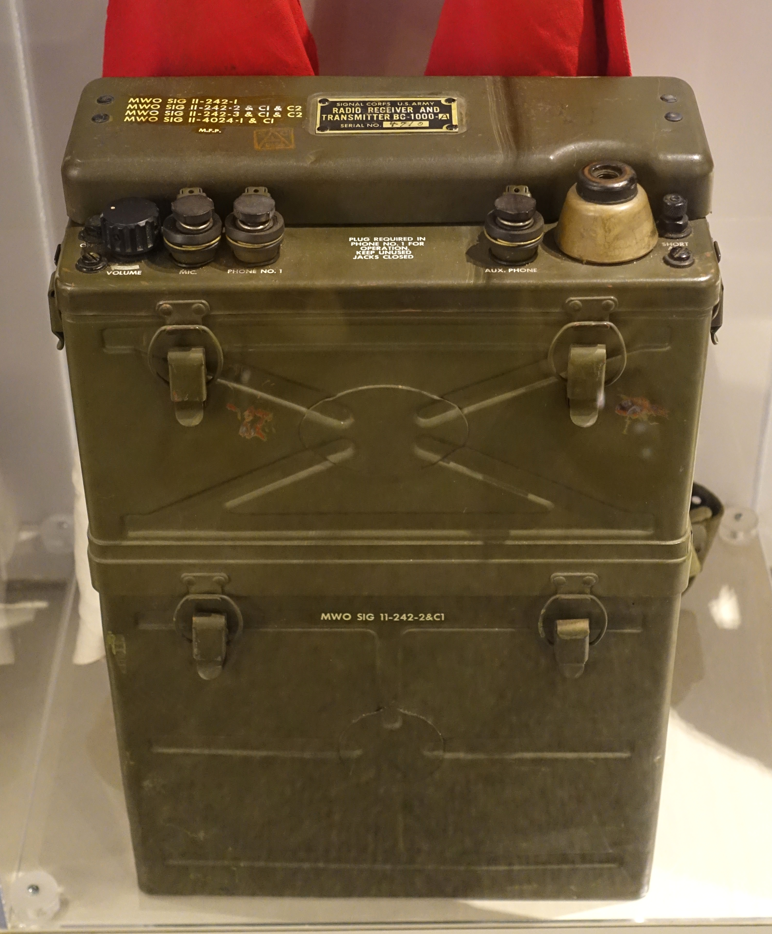 Exhibit in the National Electronics Museum, 1745 West Nursery Road, Linthicum, Maryland, USA. All items in this museum are unclassified. The museum permitted photography without restriction.